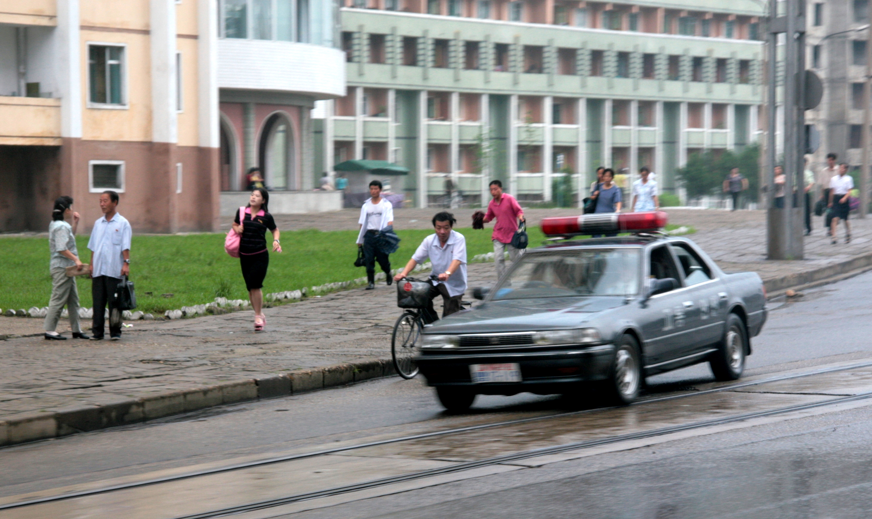 North Korean police automobile in a suburb of Pyongyang.